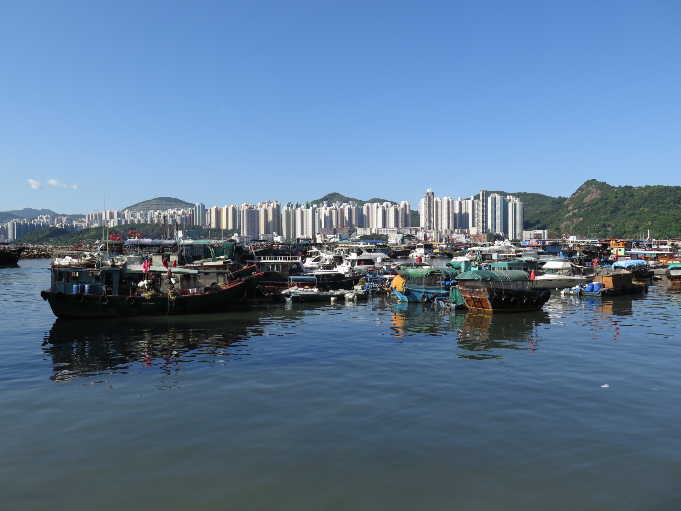 Shaukeiwan Typhoon Shelter